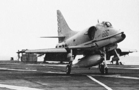 A Royal Australian Navy Douglas A-4G Skyhawk of 805 Squadron on deck of the U.S. Navy anti-submarine aircraft carrier USS Kearsarge (CVS-33) during that carrier's deployment to the Western Pacific and Vietnam from 29 March to 4 September 1969. The A-4G 886 (USN BuNo 154907) was lost at sea when it rolled off the deck of RAN carrier HMAS Melbourne (R21) on 24 September 1979. Melbourne was caught in a storm circa 350 km east of Australia when the ship suddenly rolled 20 degrees to starboard and the aircraft was lost.